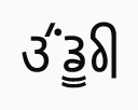 specimen